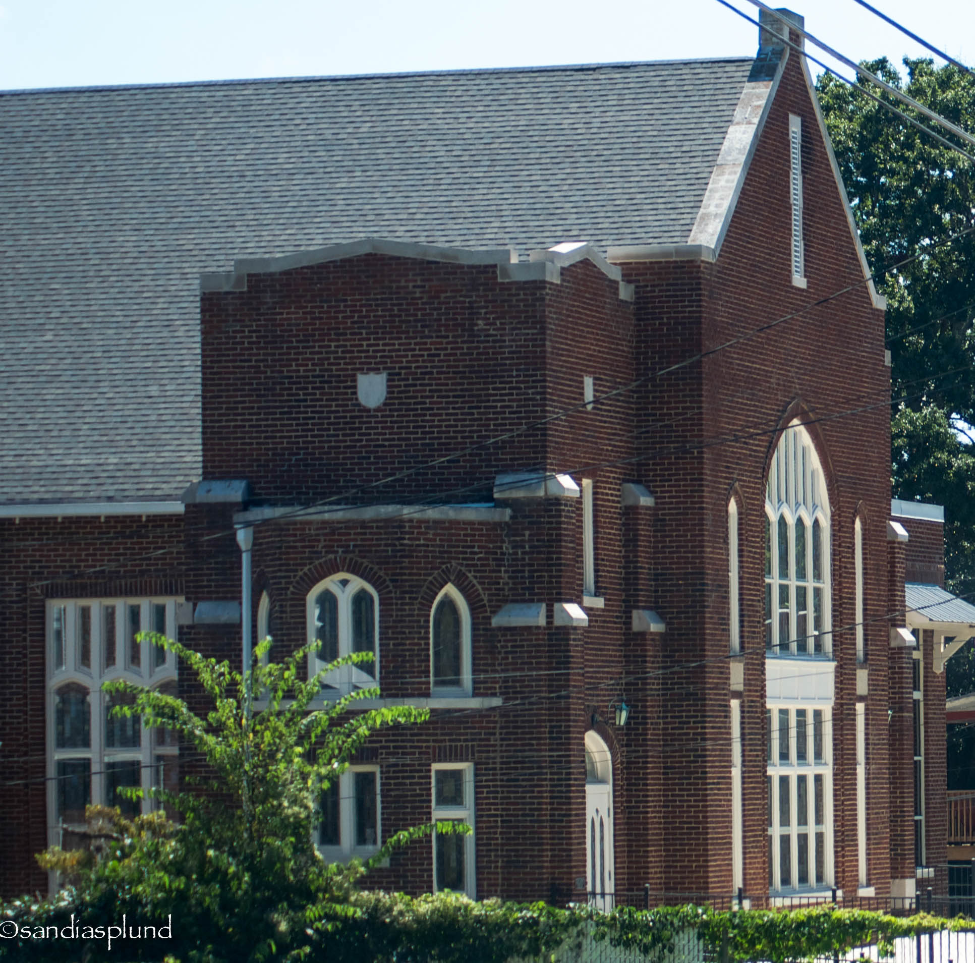 St. Elmo Historic District, Alabama, St. Elmo, and Tennessee Aves. Chattanooga